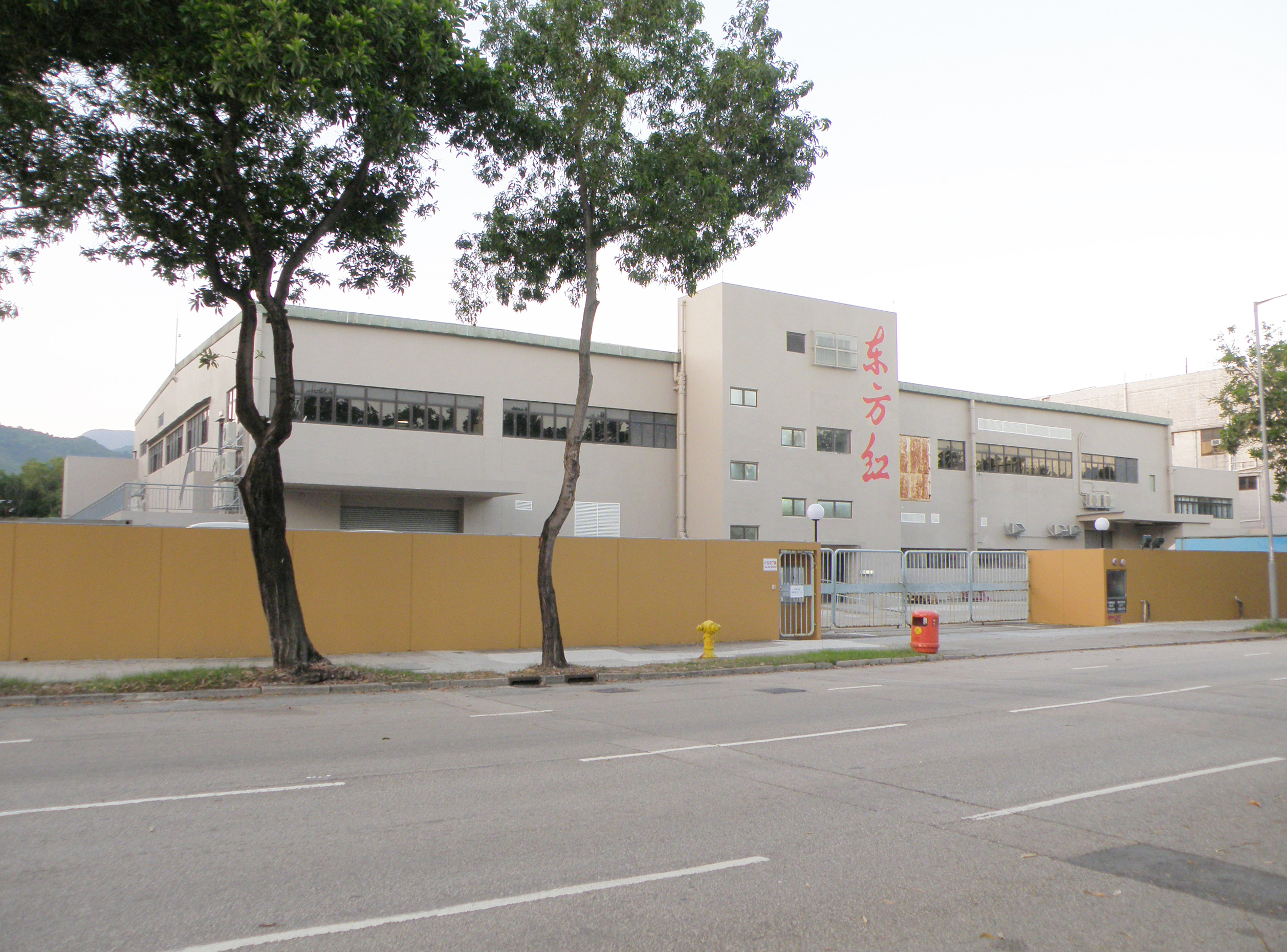 Tung Fong Hung (Medicine) Company Limited in Tai Po, Hong Kong.